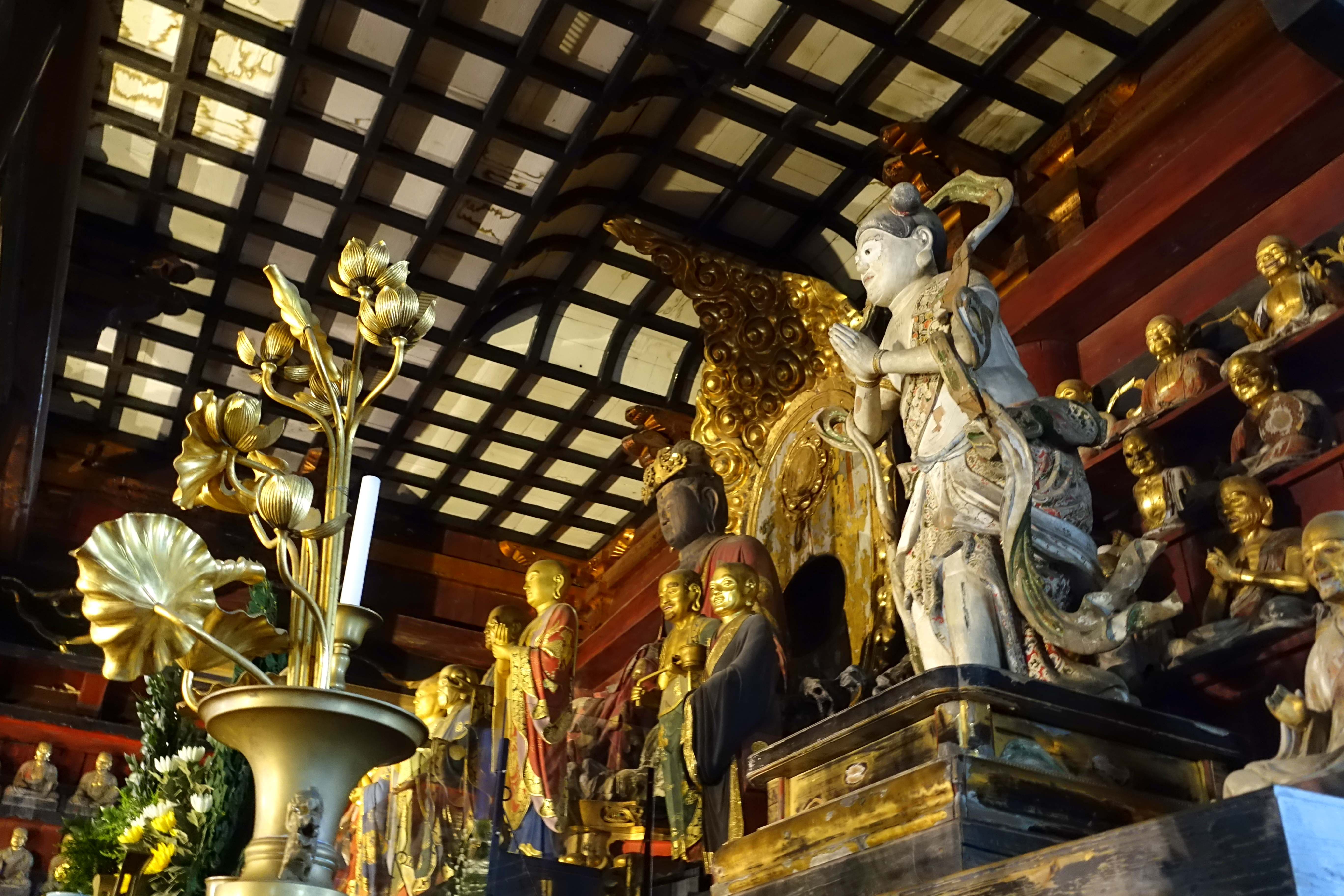 Rakando - Hōon-ji Temple - Morioka, Iwate, Japan.